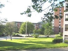 Picture from Orebakken in Oslo, Norway